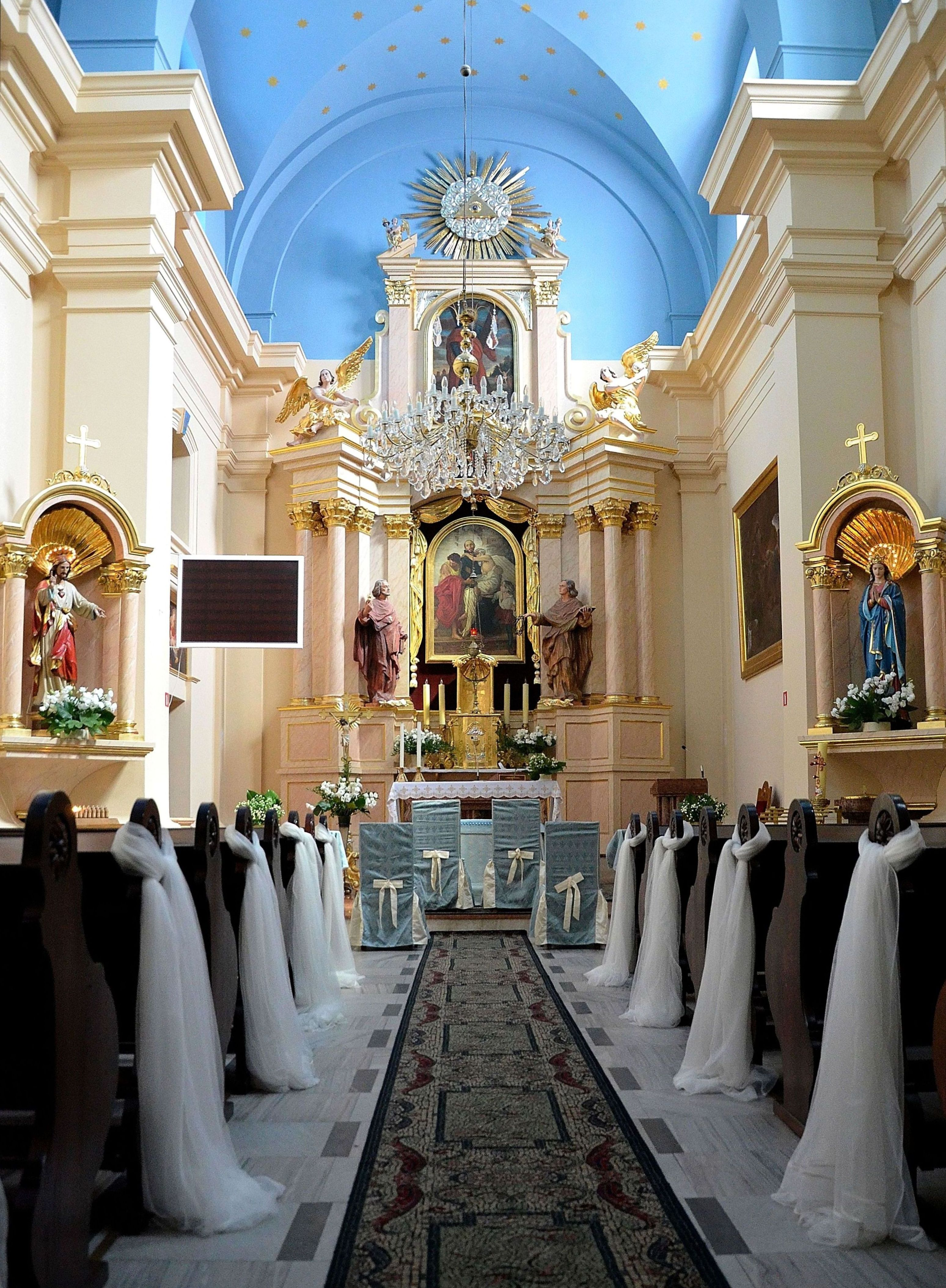 Interior of the church of Saint John of God in Warsaw (listed in the Register of Historic Monuments on 1.07.1965, reference no. 23)